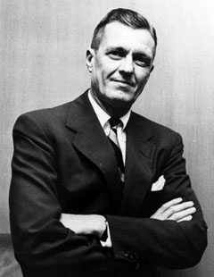 Livingston T. Merchant (1903 - 1976), was an American official and diplomat.